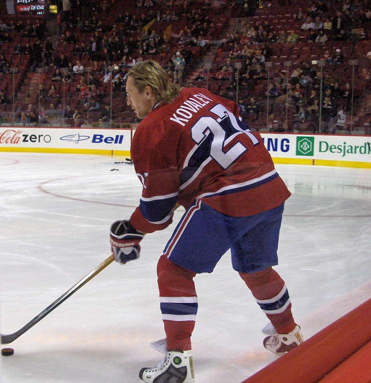 Alexei Kovalev